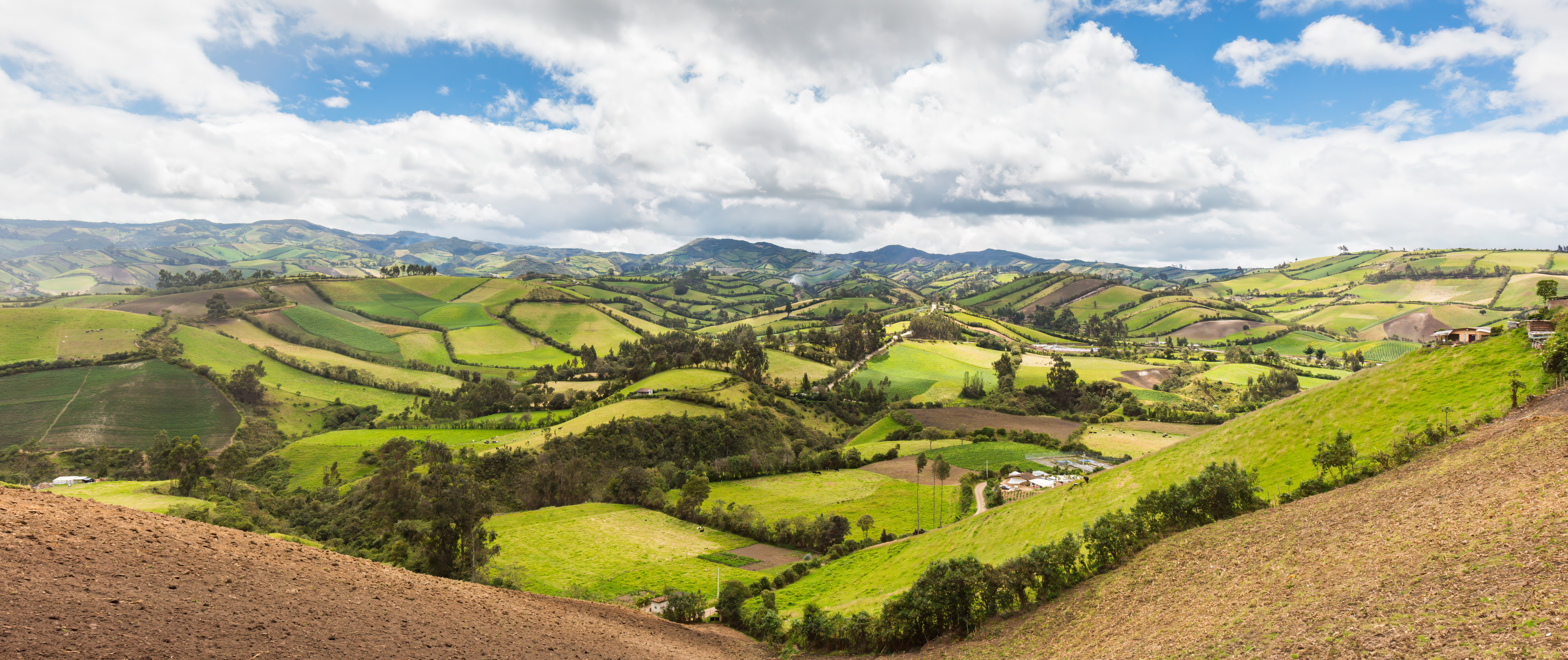 View of the fields from Julio Andrade, Carchi Province, Ecuador